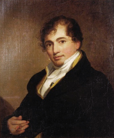 Robert Fulton, holding a watch fob in his right hand oil on canvas 61 x 50.8 cm.